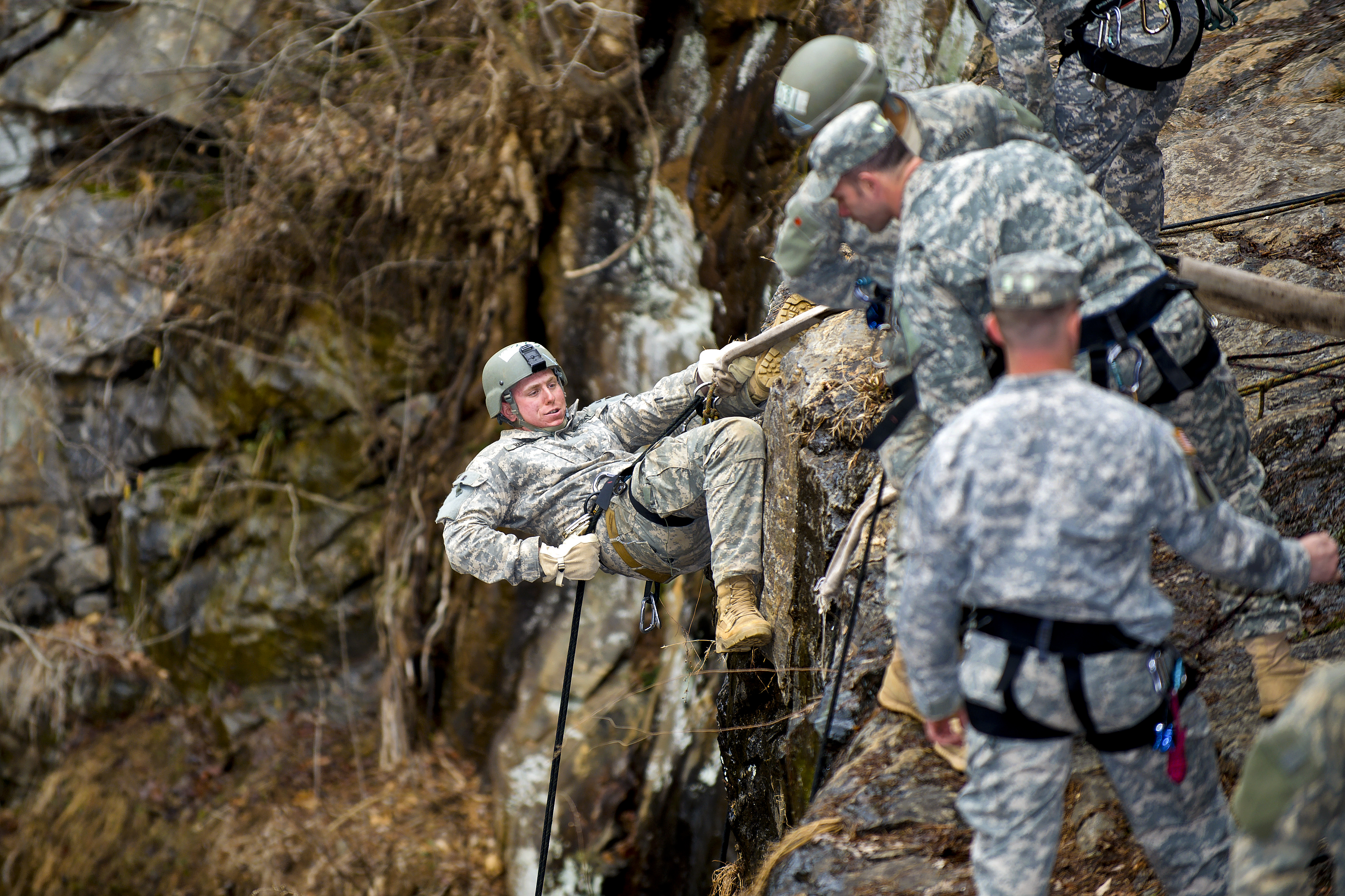 Ranger Training Class 4-11 begins the Mountain Phase by learning lower mountaineering skills including rappelling (30' tower and 60' rock face) and various knot tying. Camp Merrill, Dahlonega, GA. Photo by John D. Helms